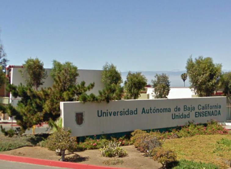 Entrance to UABC—Autonomous University of Baja California, Ensenada Campus — in Ensenada, BC.